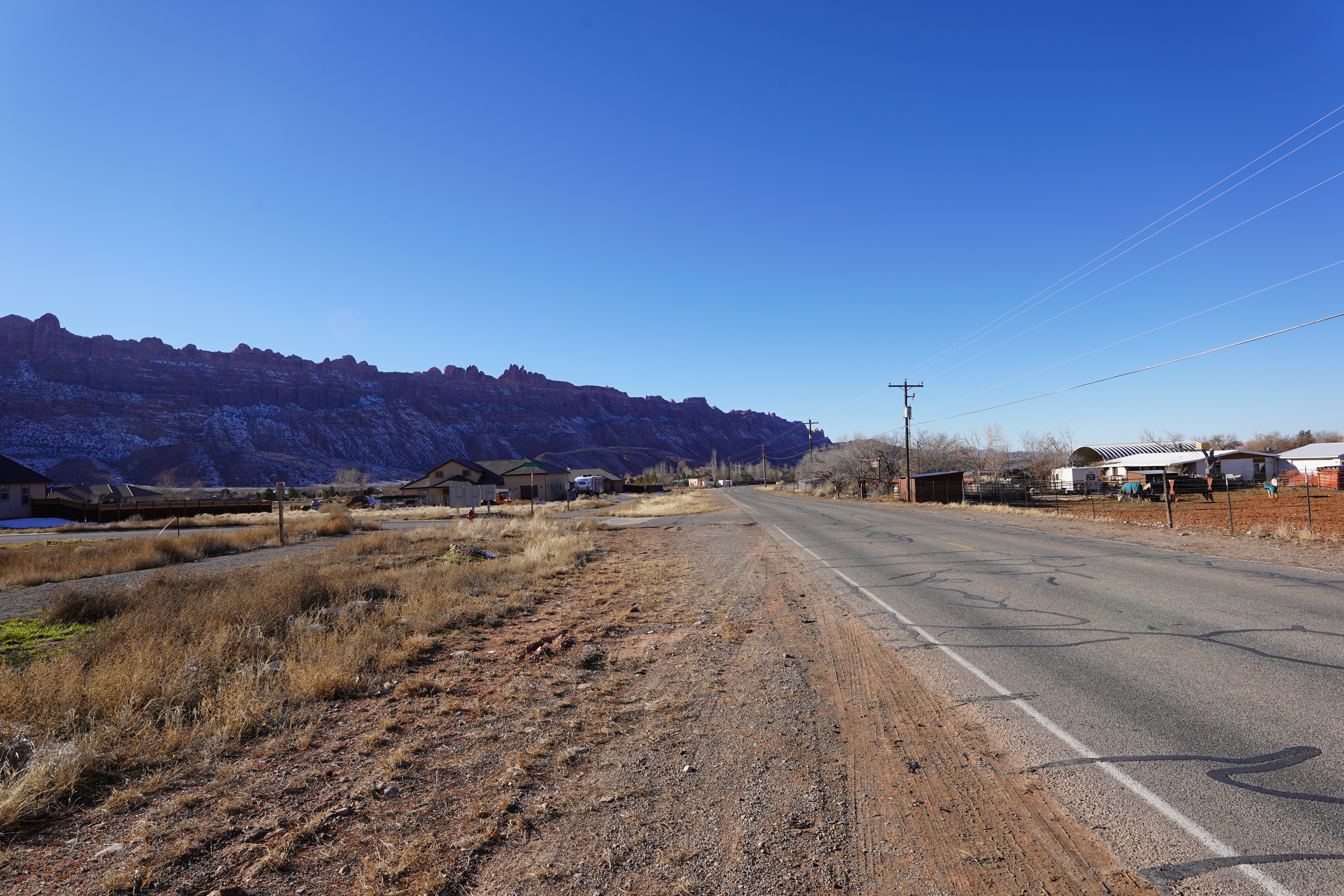 The photograph shows a typical section of farmland and housing in Spanish Valley, Utah. Photograph taken on 2019-01-26T22:07:17Z.